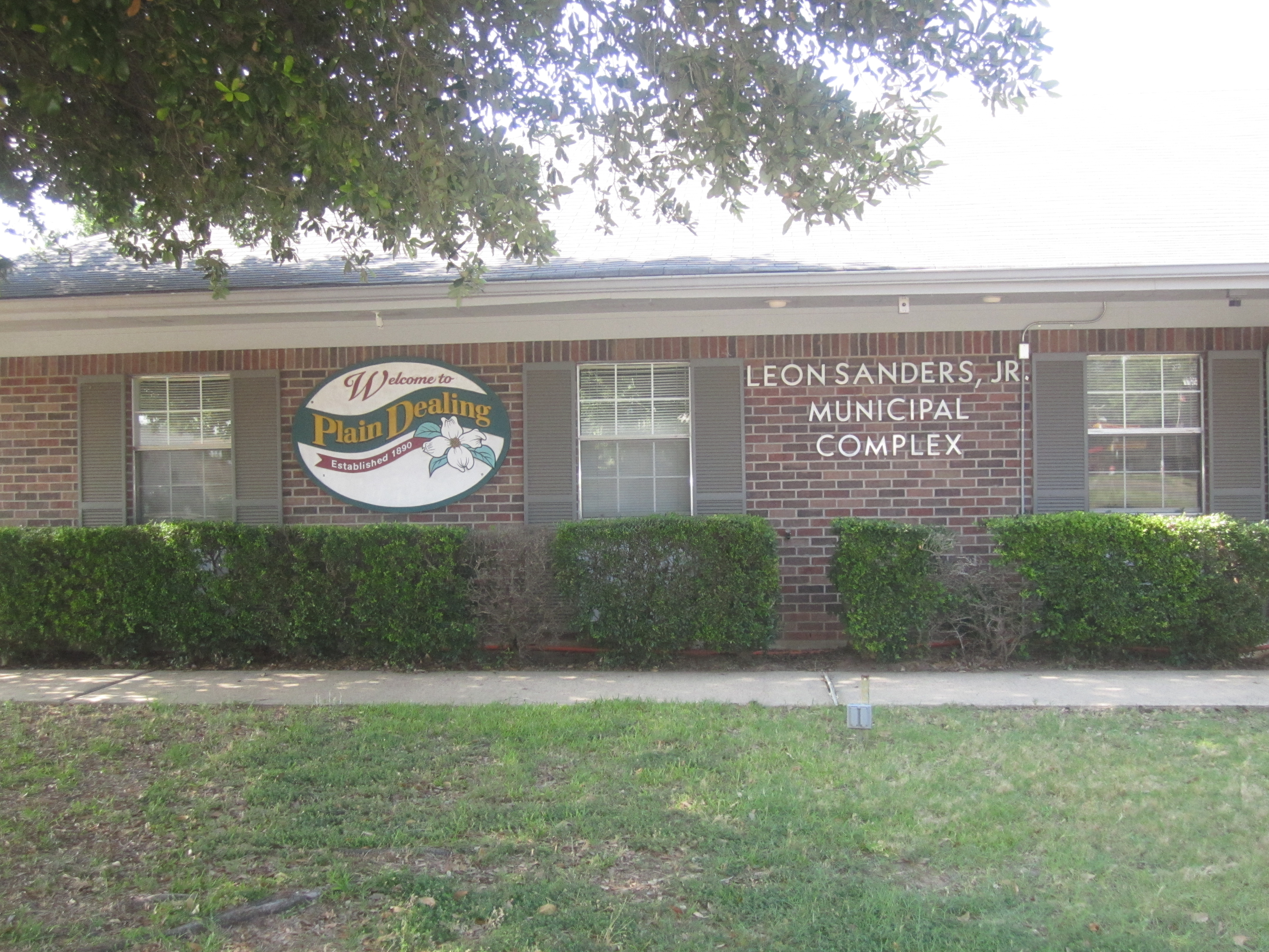 I took photo with Canon camera in Plain Dealing, LA, on June 9, 2012.Billy Hathorn (talk) 02:31, 28 June 2012 (UTC)